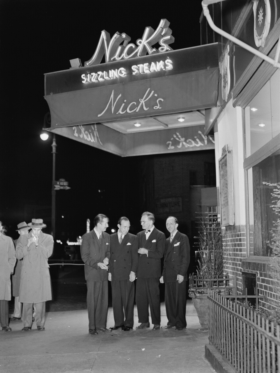 Pee Wee Russell, Muggsy Spanier, Miff Mole, and Joe Grauso, Nick's (Tavern), New York, N.Y., ca. June 1946 (Photograph by William P. Gottlieb)